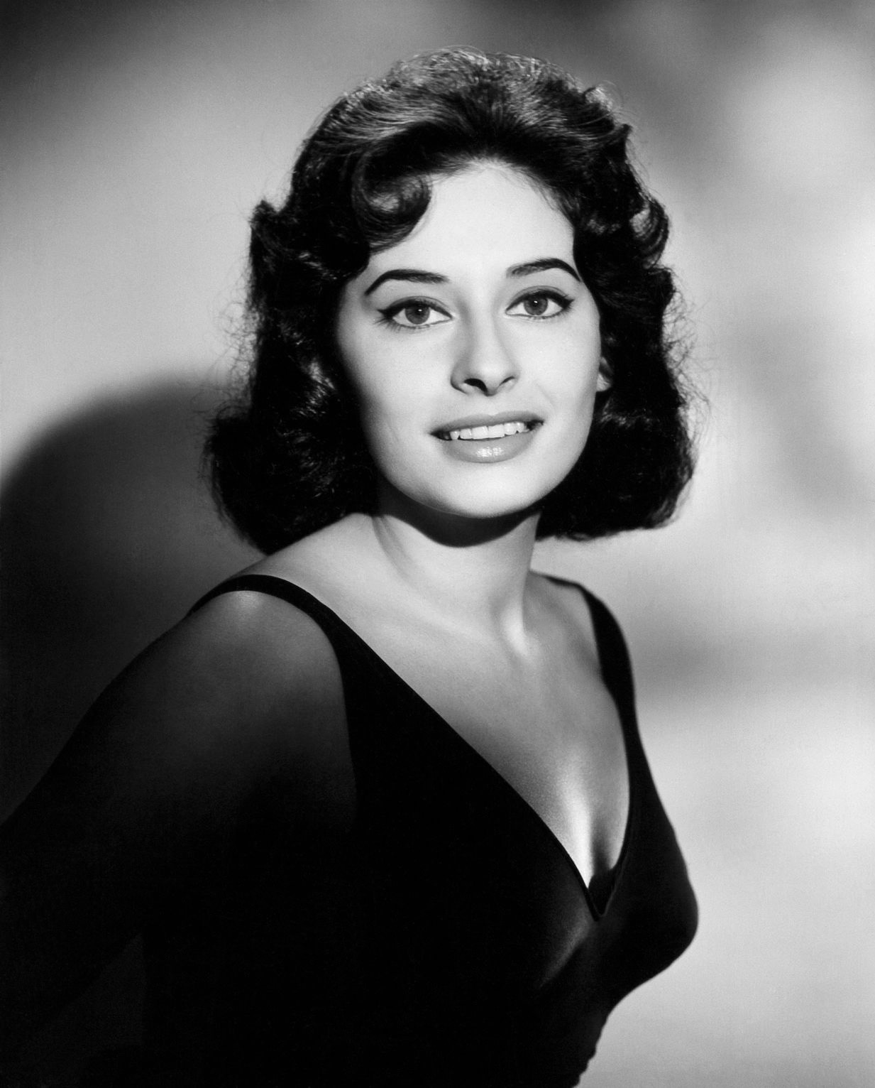 American actress Ina Balin, From the Terrace (1960) publicity still